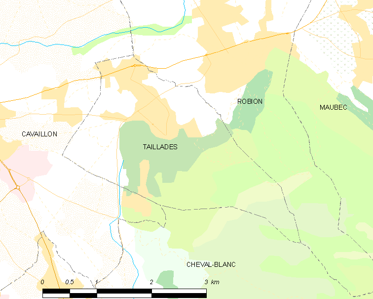 Map of French municipality Taillades